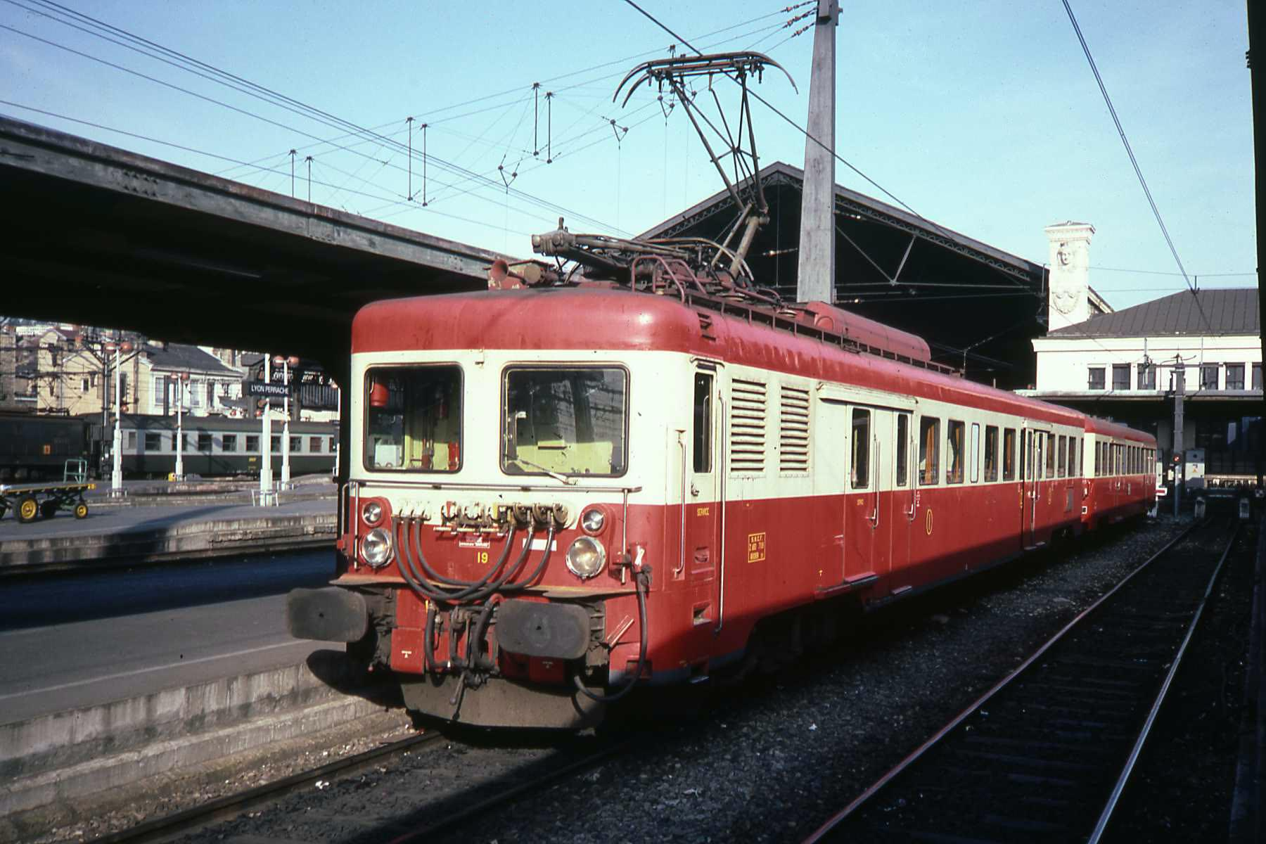 Z 7100 class electric multiple unit at Lyon Perrache station at the side bay. These trains no longer exits.